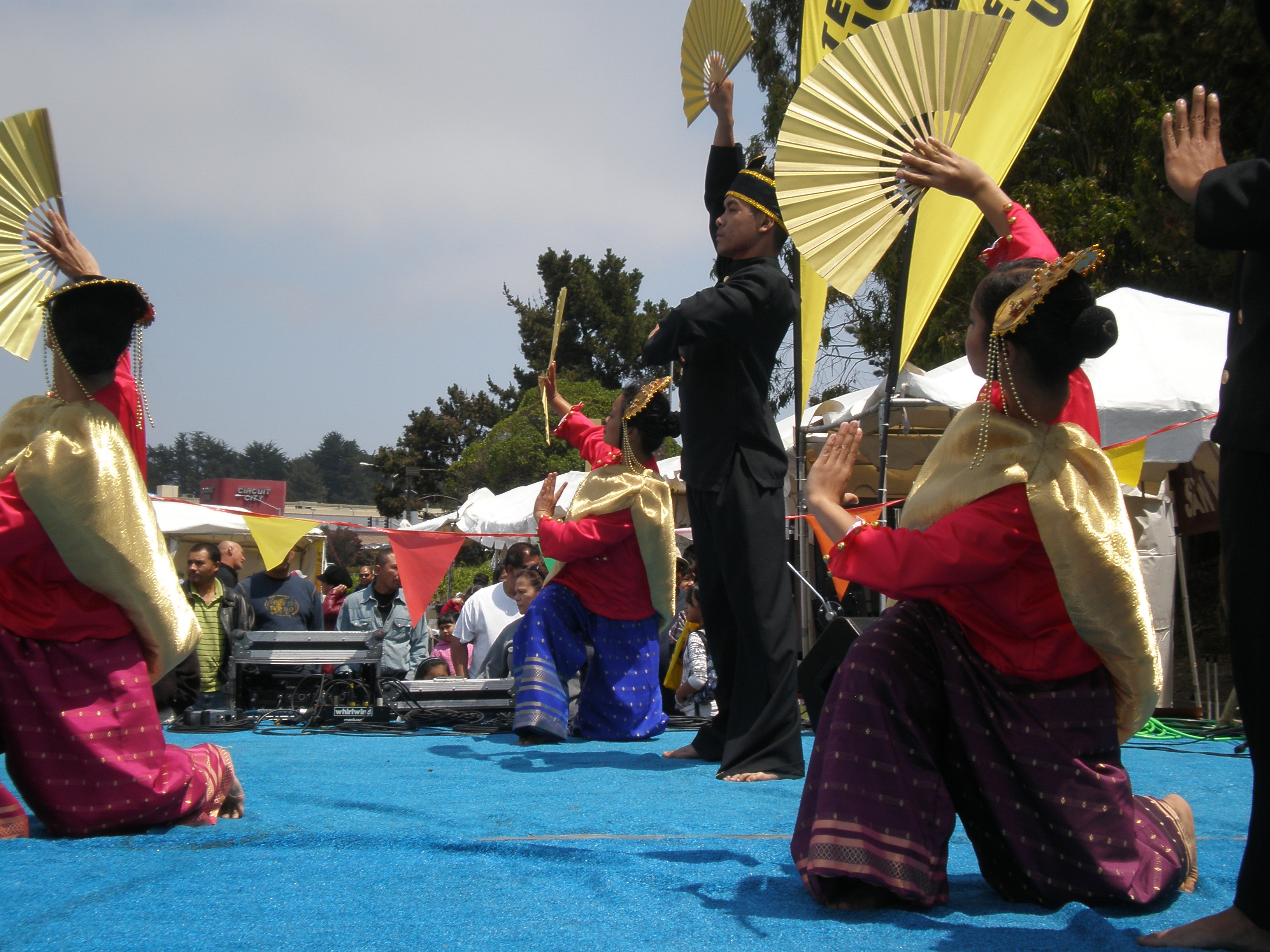 Members of the San Francisco based Parangal Dance Company performing the Daling-Daling dance of the Tausug people of the Sulu Archipelago as part of their Bangsamoro suite of dances at the 14th Annual Fil-Am Friendship Celebration at Serramonte Center in Daly City, California.